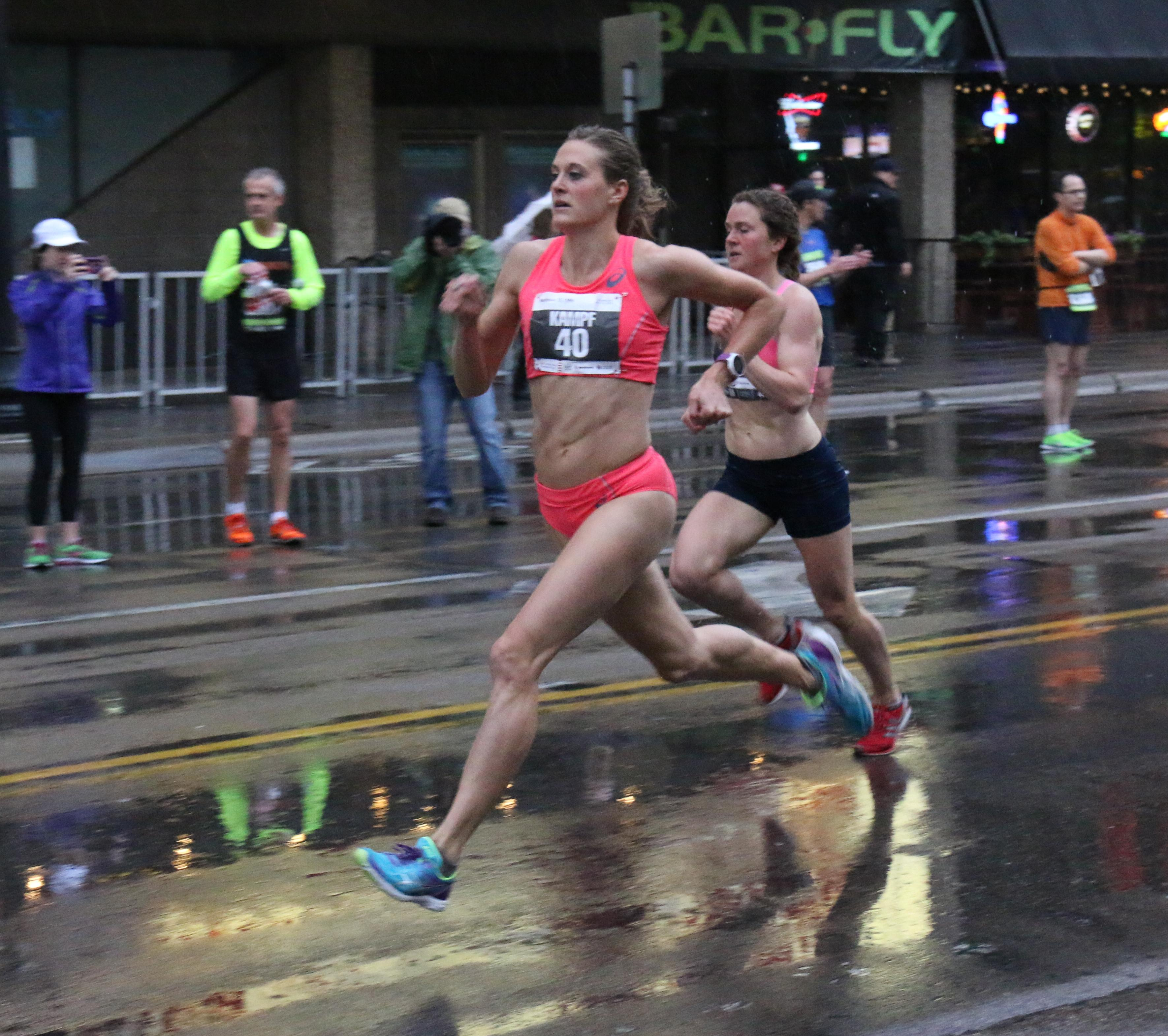 Medtronic Twin Cities 1-mile championship Place Div No. Name Age Sex City St Time ===== === ===== ======================================= === === =================== === ========= 1 1 40 Heather Kampf 28 F Minneapolis MN 4:45.4 2 1 44 Rebecca Addison 23 F Spring Lake MI 4:46.5 ...